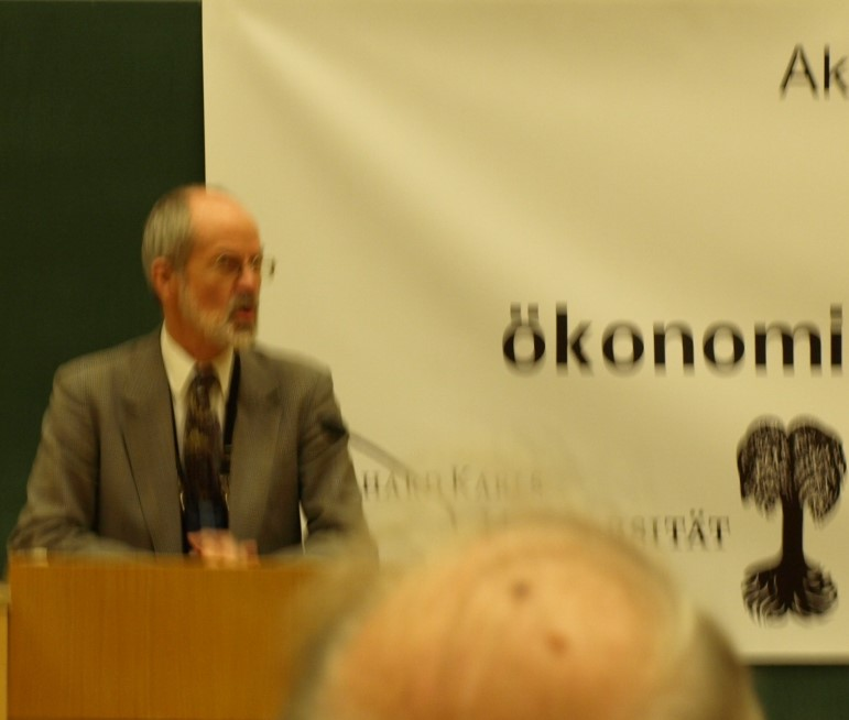 Prof. Lutz Richter-Bernburg, leading islamologist in the oriental studies of Wuerttemberg, giving a talk on Islamic Globalization, Purchasing and Al'Quaida